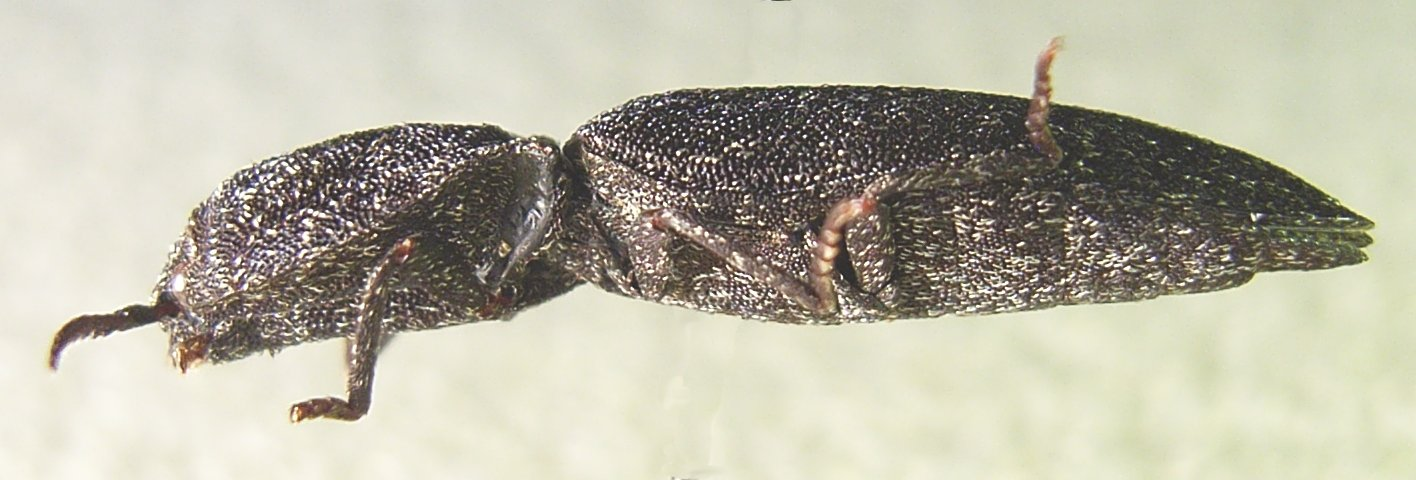 Side of Lacon punctatus